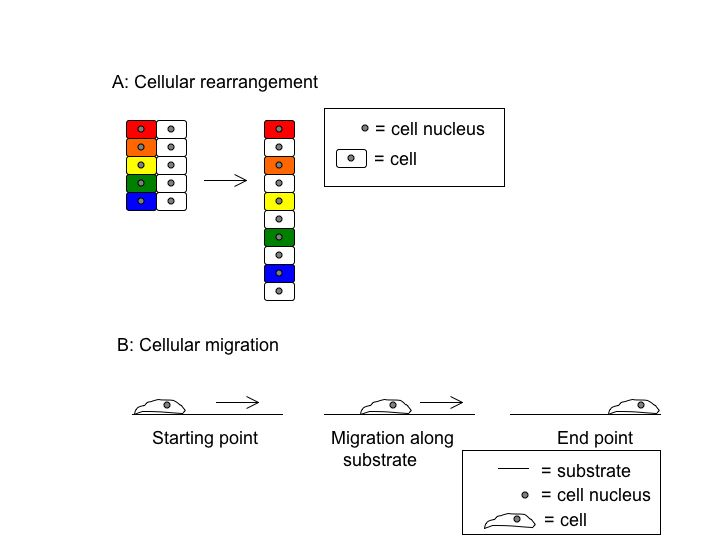 Morphogenic Movements (Adapted from J.B. Wallingford, et al. 2002)